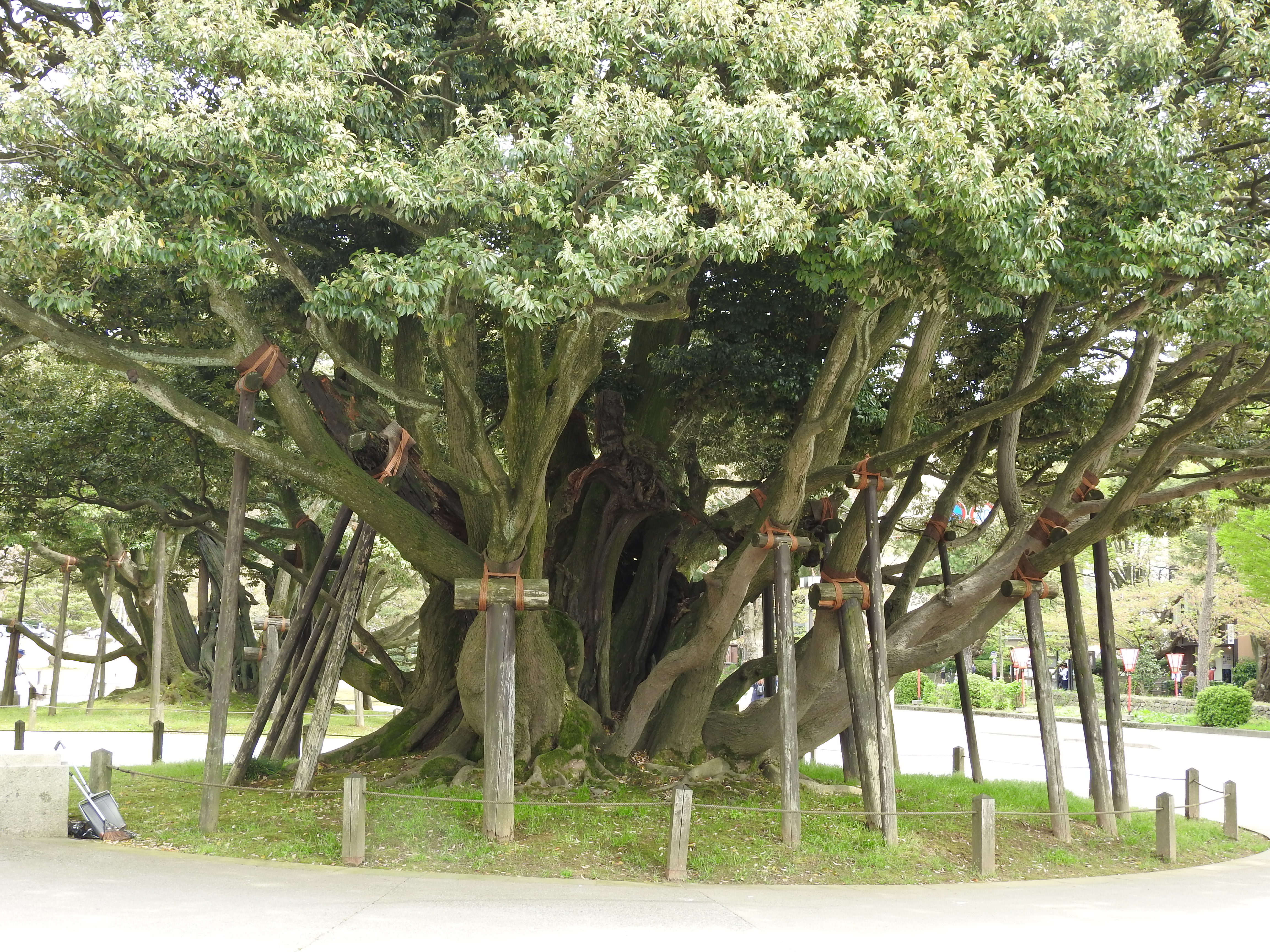 Dougata no Ishiinoki, the castanopsis (chinquapin) of Kanazawa (Ishikawa, Japan) is said to be 300 years old